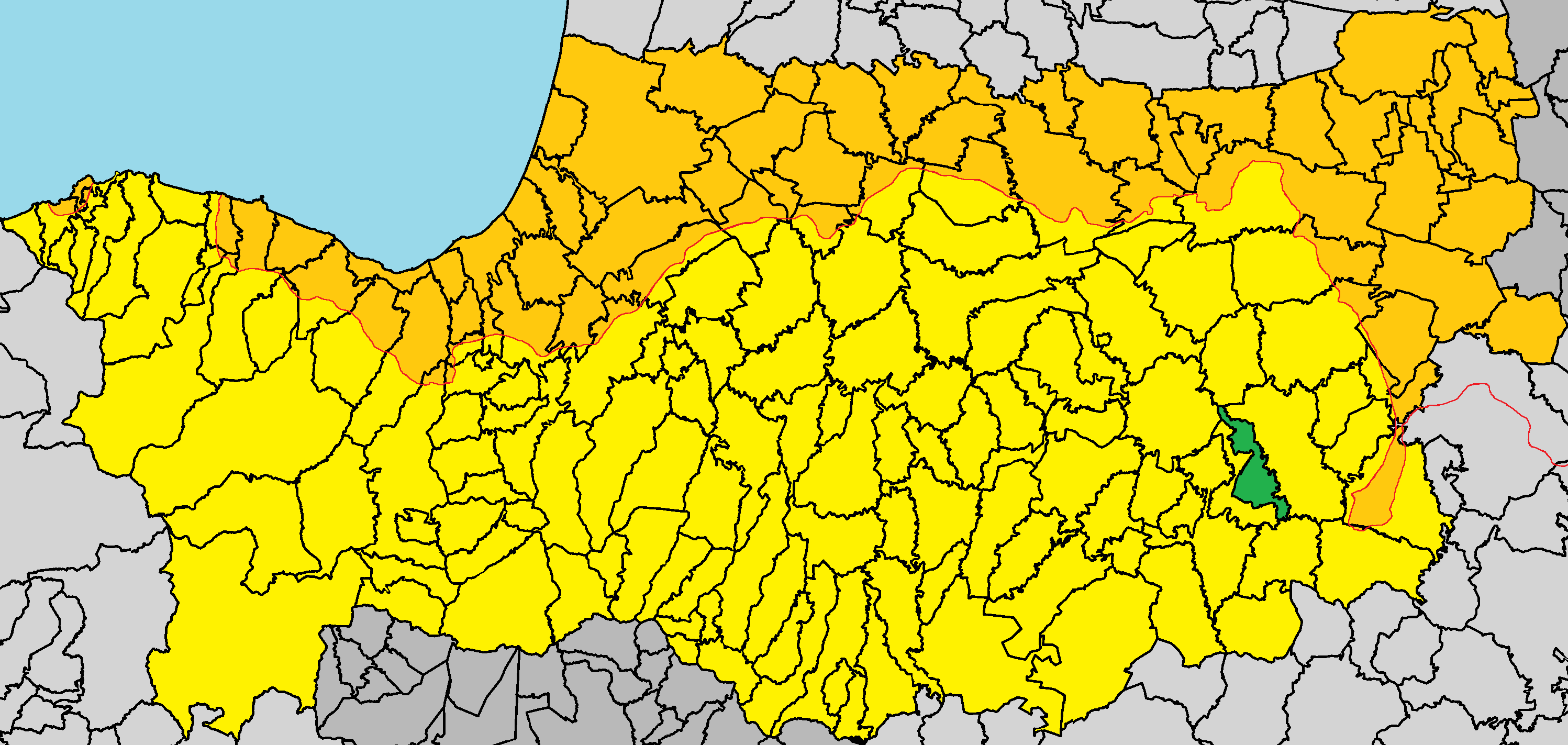 Nisou in Nicosia District.